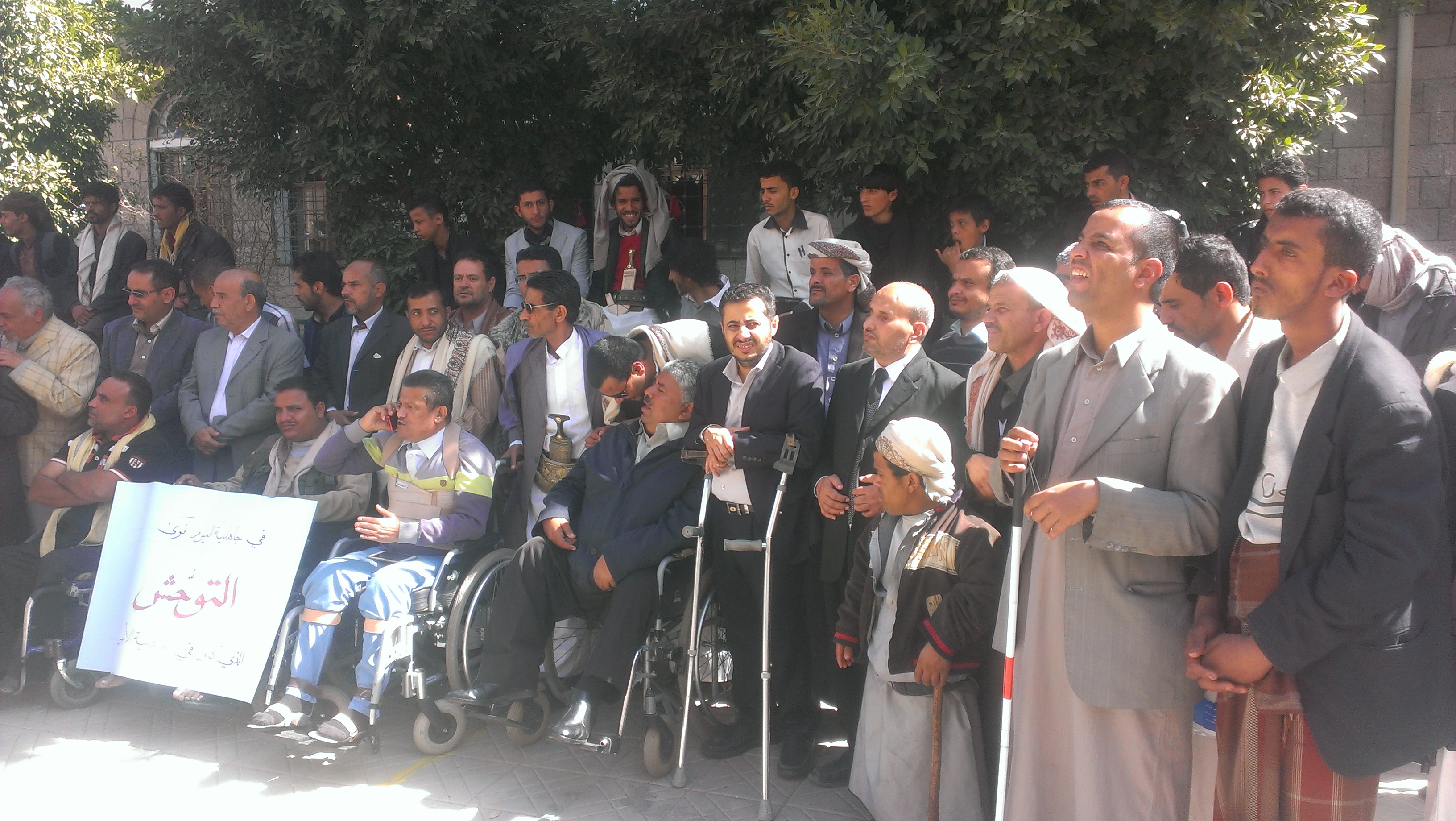 Original description: "Human Rights Watch says nearly 6,000 people have been disabled since the Saudi-led coalition began airstrikes nine months ago. (A. Mojalli/VOA)"